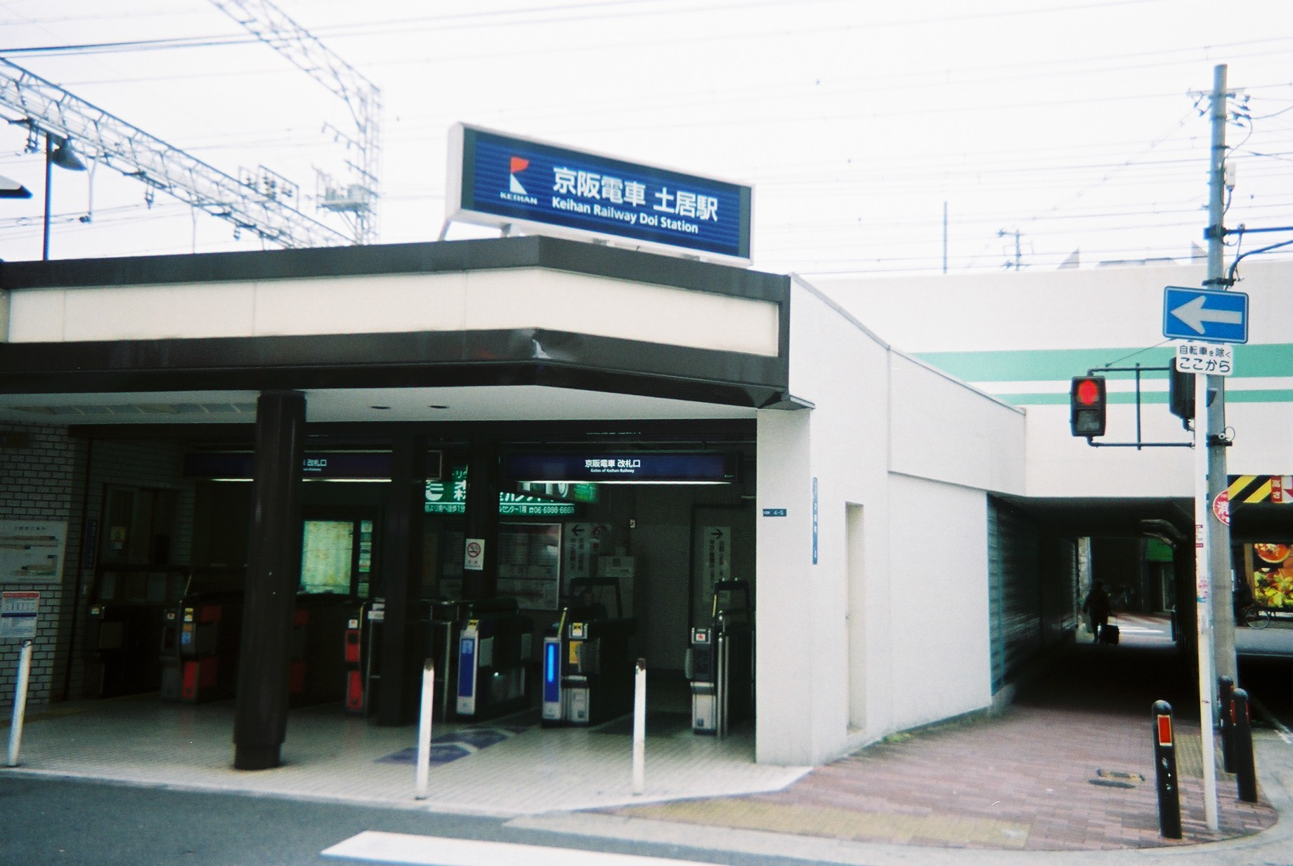 Keihan Doi Station